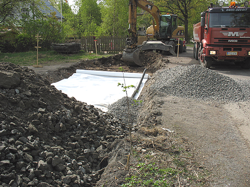 Roadworks of a cycle path